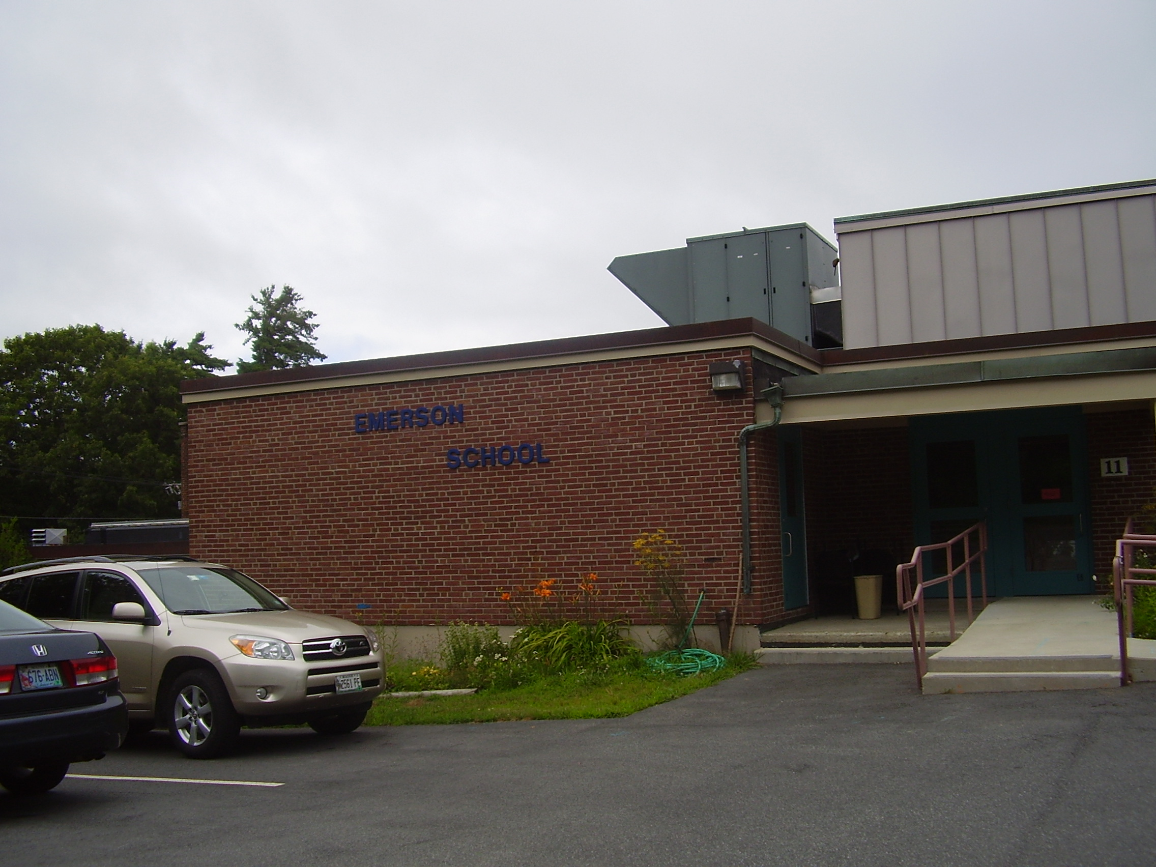 Conners Emerson School